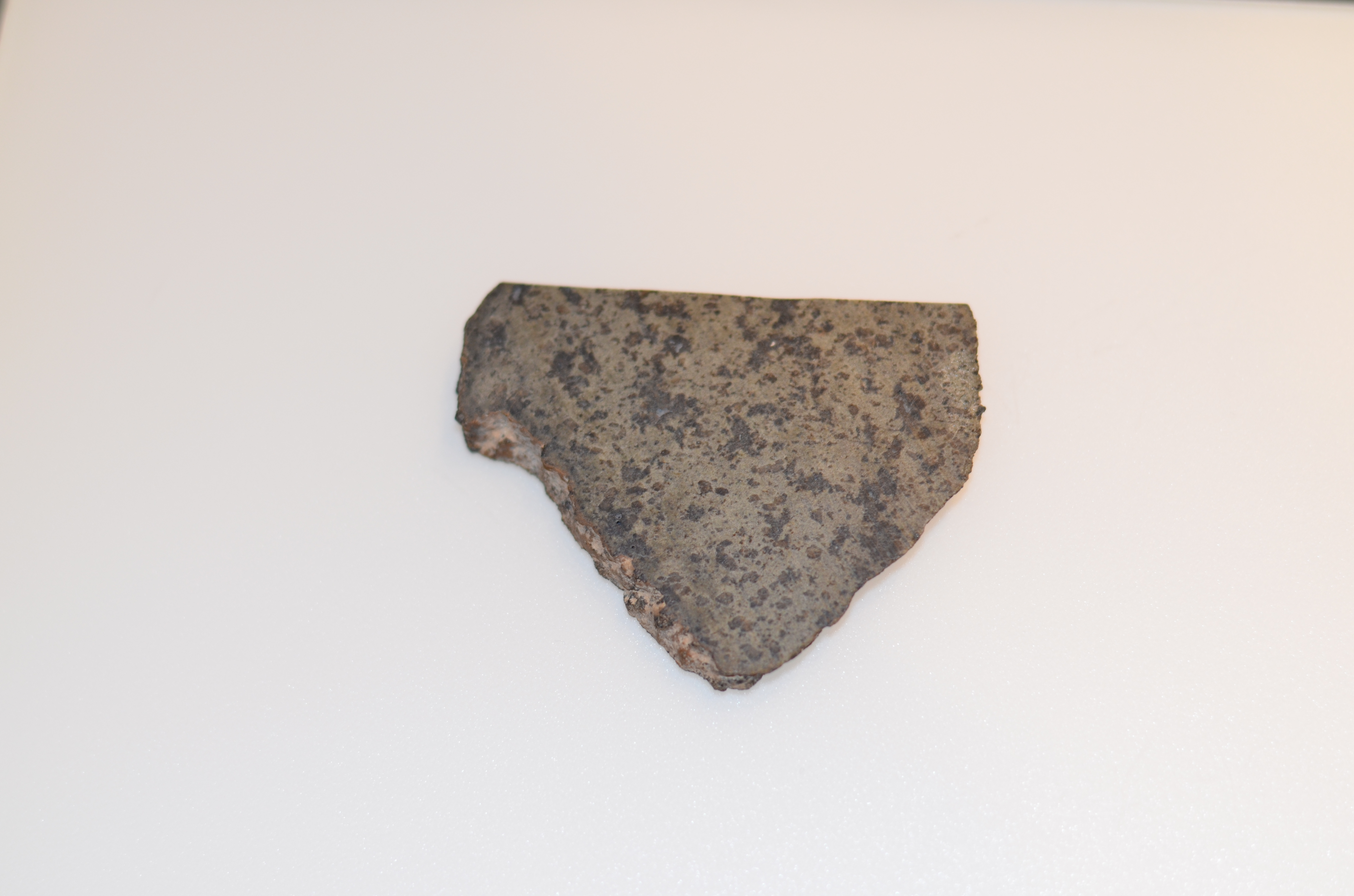 Close-up of a slice of a meteorite scientists have determined came from Mars. This slice will likely be used here on Earth for testing a laser instrument for NASA's Mars 2020 rover; a separate slice will go to Mars on the rover. Martian meteorites are believed to be the result of impacts to the Red Planet's surface, resulting in rock being heaved into the atmosphere. After traveling through space for eons, some of these rocks entered Earth's atmosphere. Scientists determine whether they are true Martian meteorites based on their rock and noble gas chemistry and mineralogy. The gases trapped in these meteorites bear the unique fingerprint of the Martian atmosphere, as recorded by NASA’s Viking mission in 1976. The rock types also show clear signs of igneous processing not possible on smaller bodies, such as asteroids.